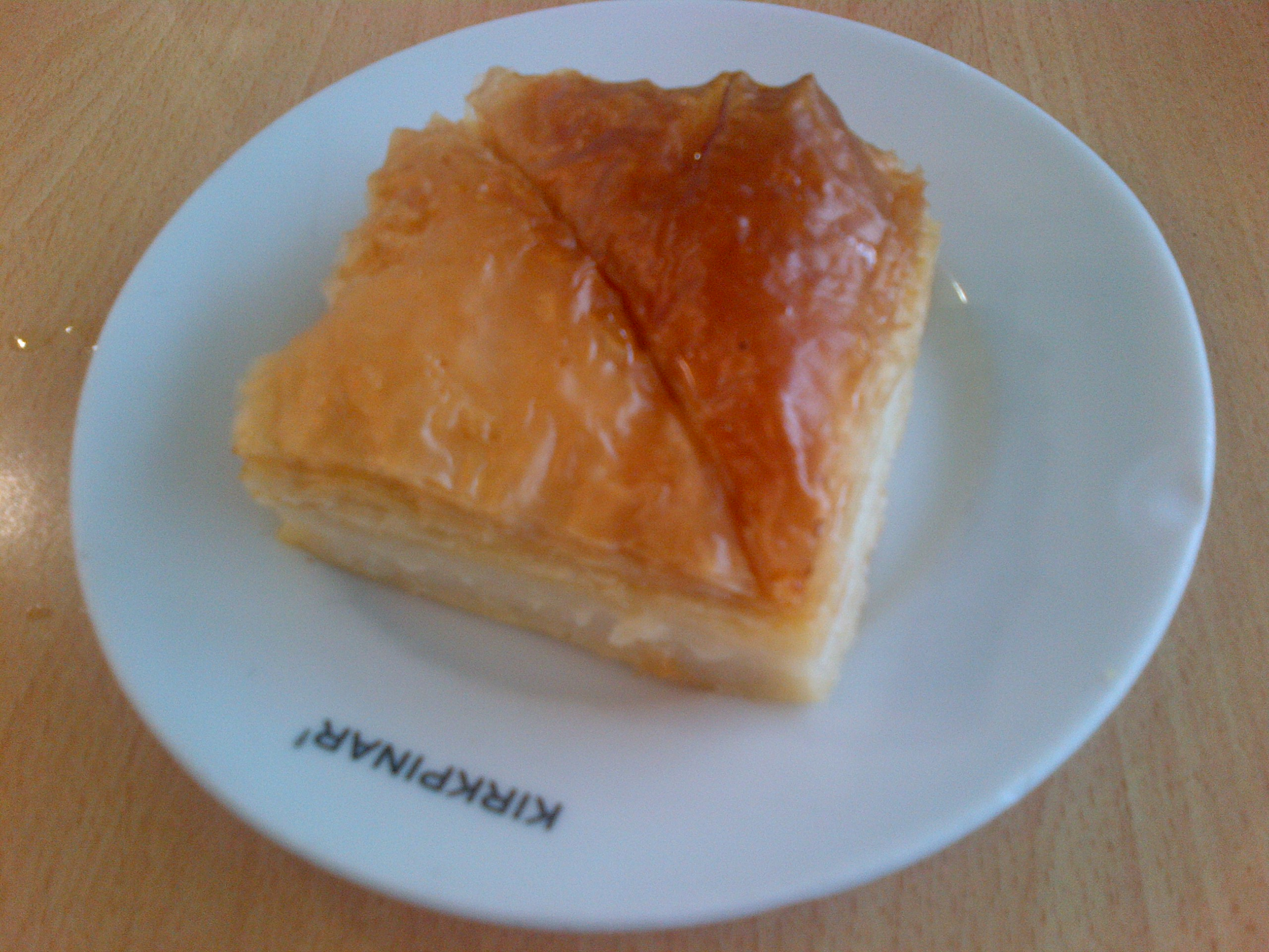 Laz böreği or Lazböreği, Turkish dessert.